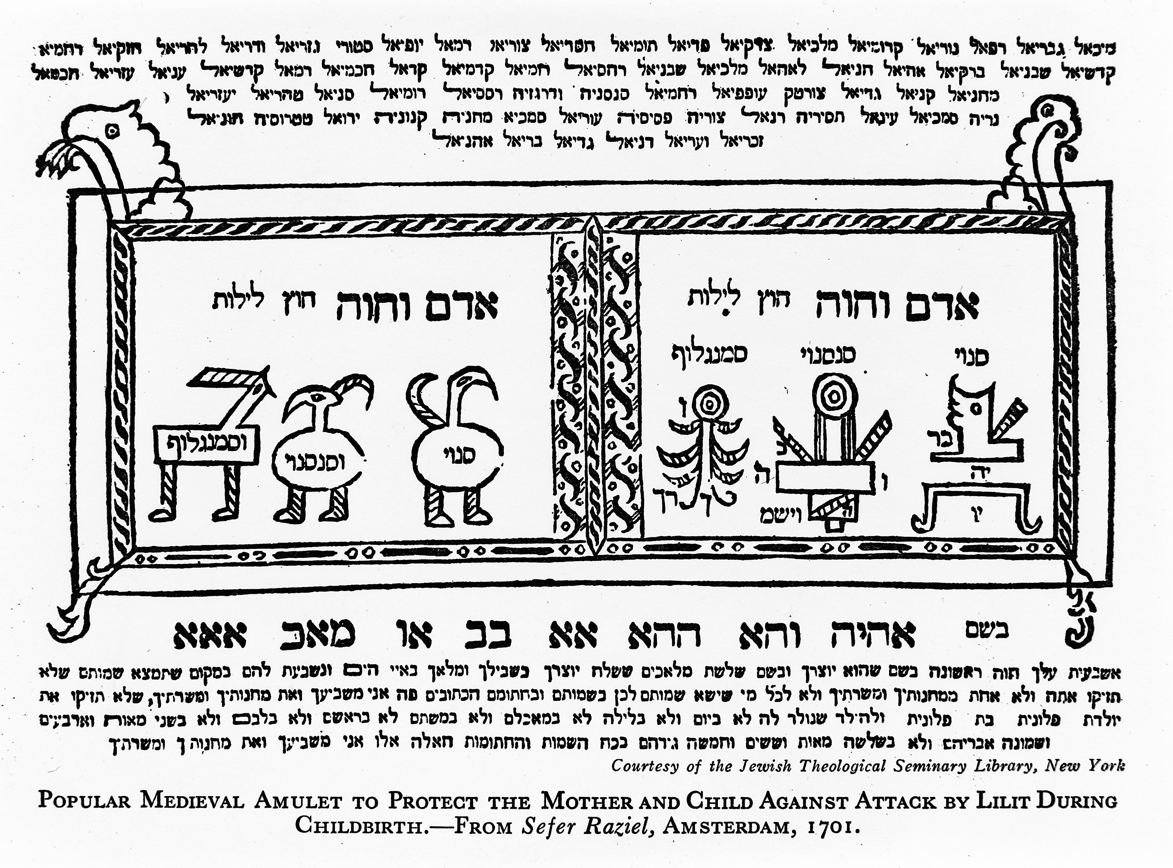 Popular medieval amulet to protect mother and child. Attacked by Lilit during Childbirth. Wellcome Images